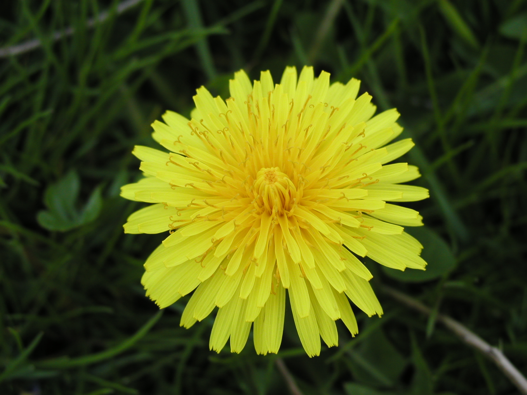 A close-up shot of a dandelion (Taraxacum).